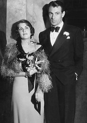 Gary Cooper and future wife Veronica Balfe in November 1933